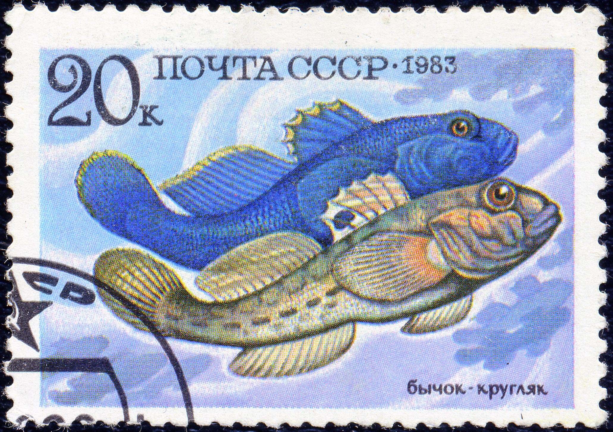 Neogobius melanostomus on a stamp